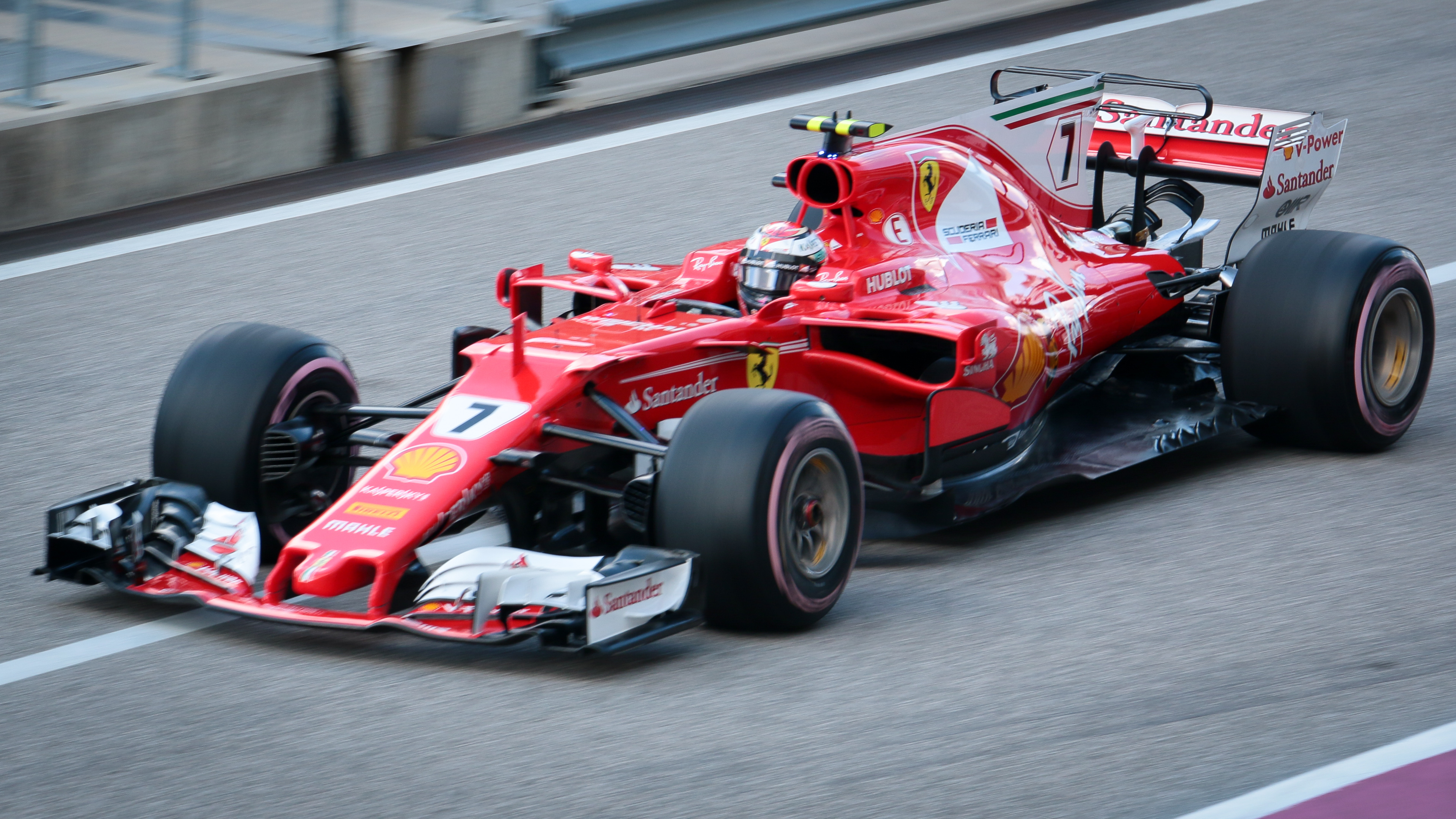 USGP Austin Oct 2017